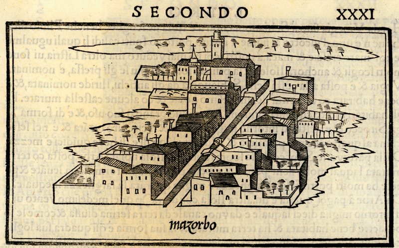 Isolario di Benedetto Bordone nel qual si ragiona di tutte l'isole del mondo, con li lor nomi antichi & moderni, historie, favole, & modi del loro vivere, Venice 1547.